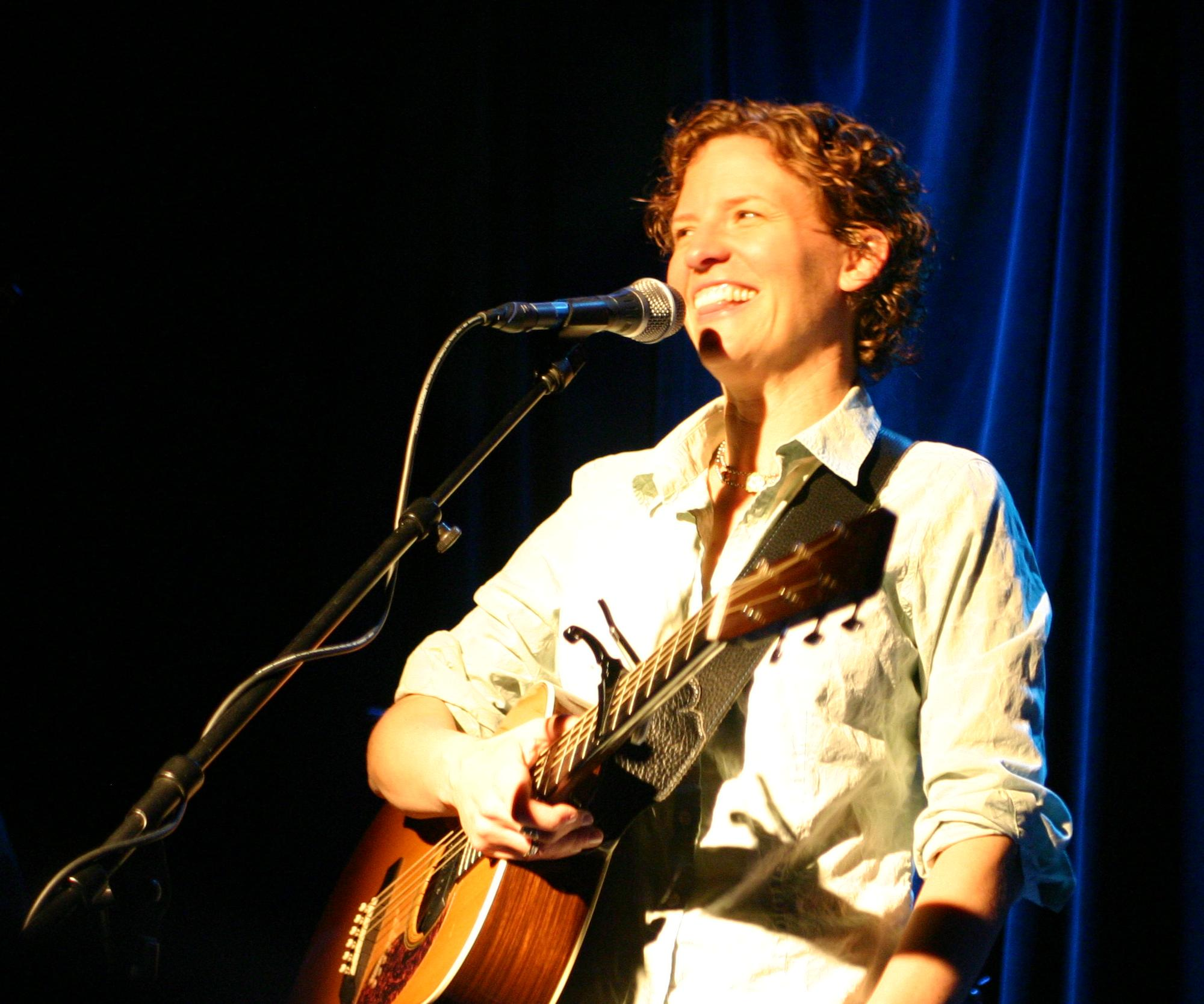 Singer-songwriter Catie Curtis playing in Natick in 2006